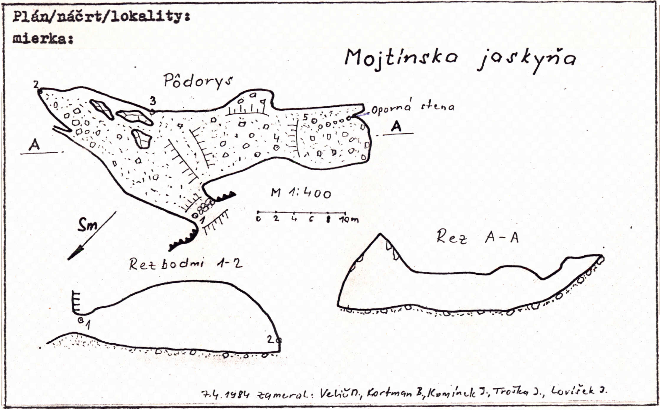 Zobrazenie pôdorysu a rezov Mojtínskej jaskyne.